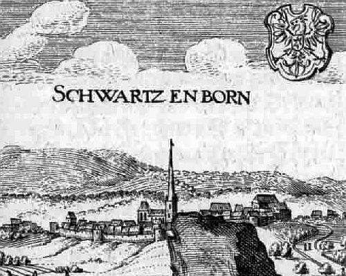 This is a scan of the historical document: Title: Schwarzenborn - Topographia Hassiae language: german